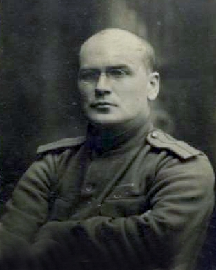 Kazimieras Venclauskis in 1915, Lithuania (Museum Aušra)